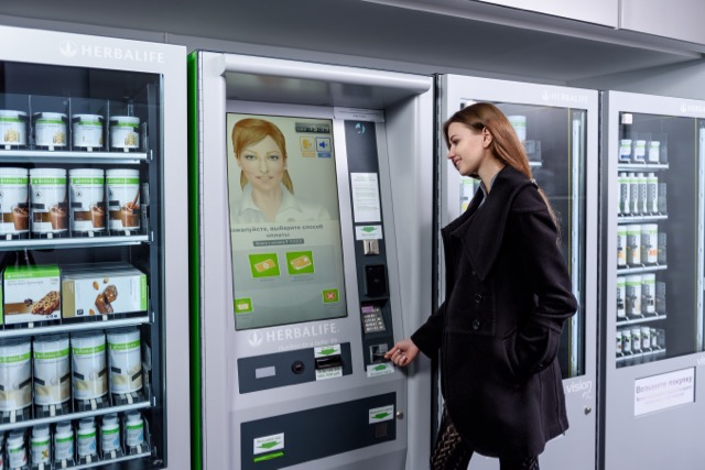 ASC’s current strengths in Russia and CIS arise from the needs of a key client, Herbalife. For over two decades, the parent company of ASC, the Filuet Group, has been establishing and managing fulfilment centres for Herbalife in Russia and the CIS. A few years ago, Herbalife requested that Filuet develop an innovative, low-cost (Capex/Opex) product access and order fulfilment platform for these markets.